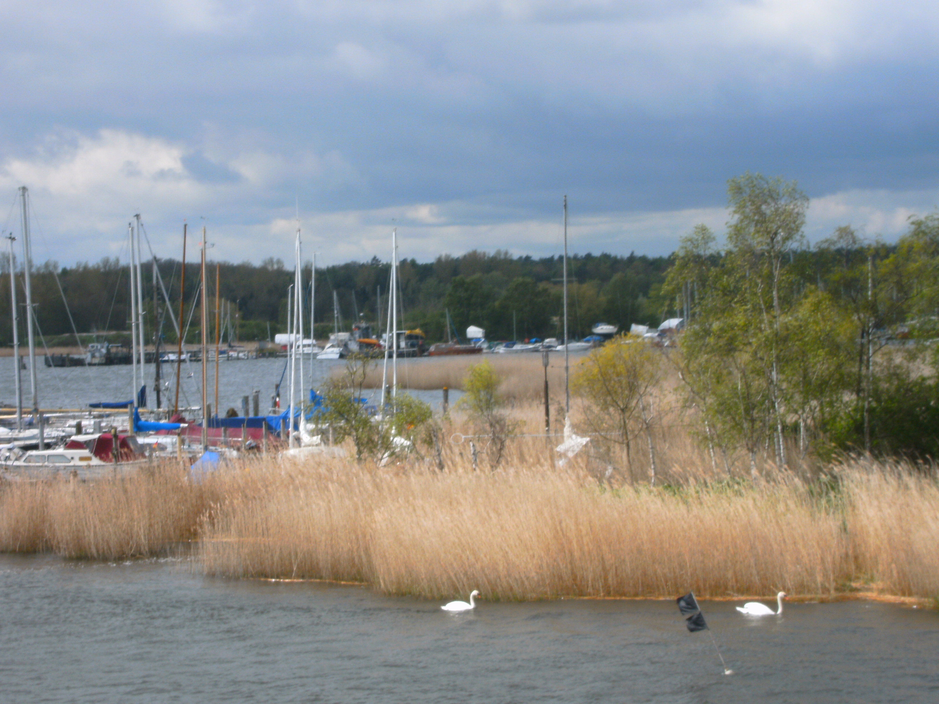 Lübeck, Germany: Herreninsel, reed and Bootshafen Quandt (port) at river Trave.